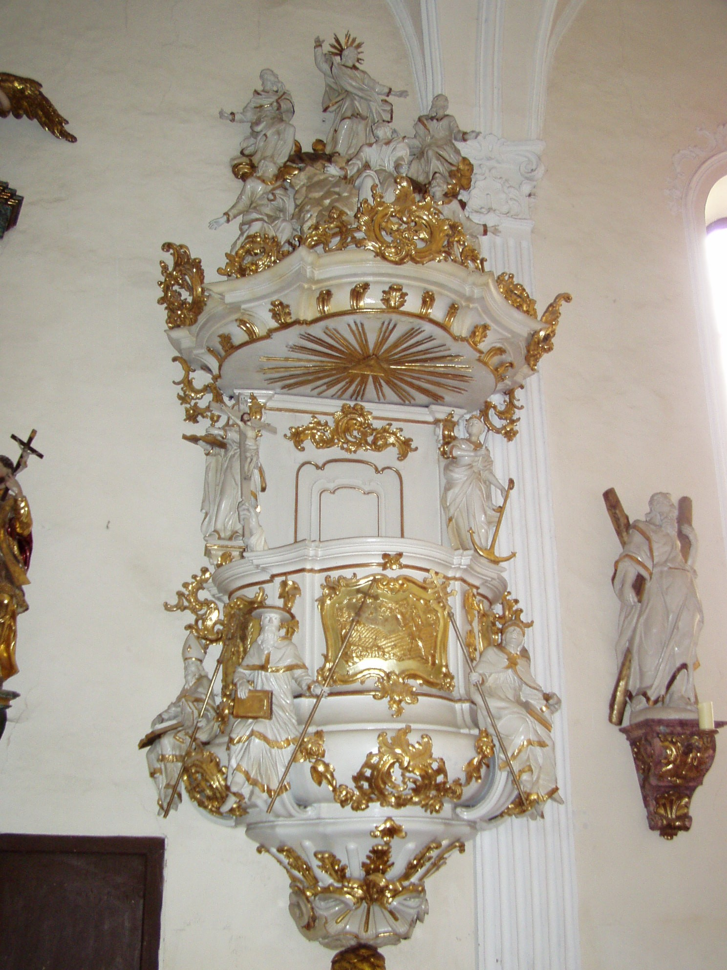 Lieding, parish church St. Margaretha/Lieding Pfarrkirche hl. Margaretha, Kanzel